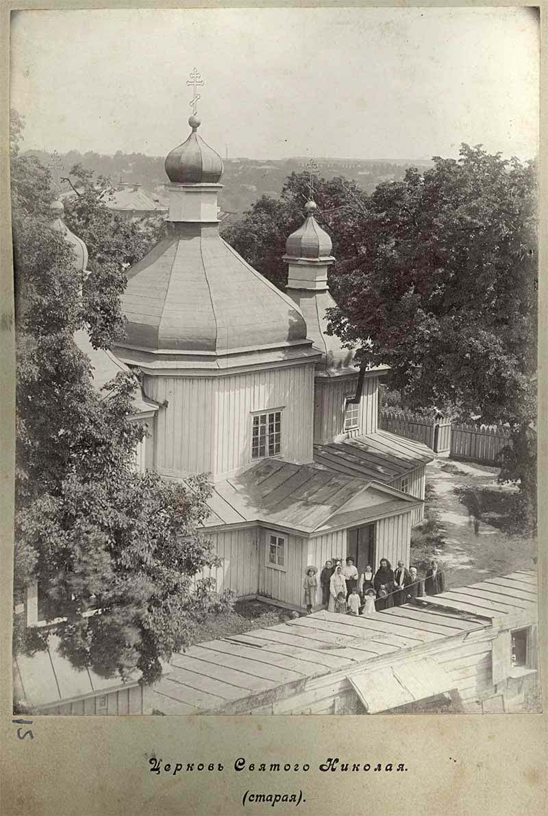 Old St. Nicholas church in Berdychiv